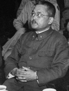 Endo Ryusaku, the eleventh (and the last) Administrative Superintendent of Korea